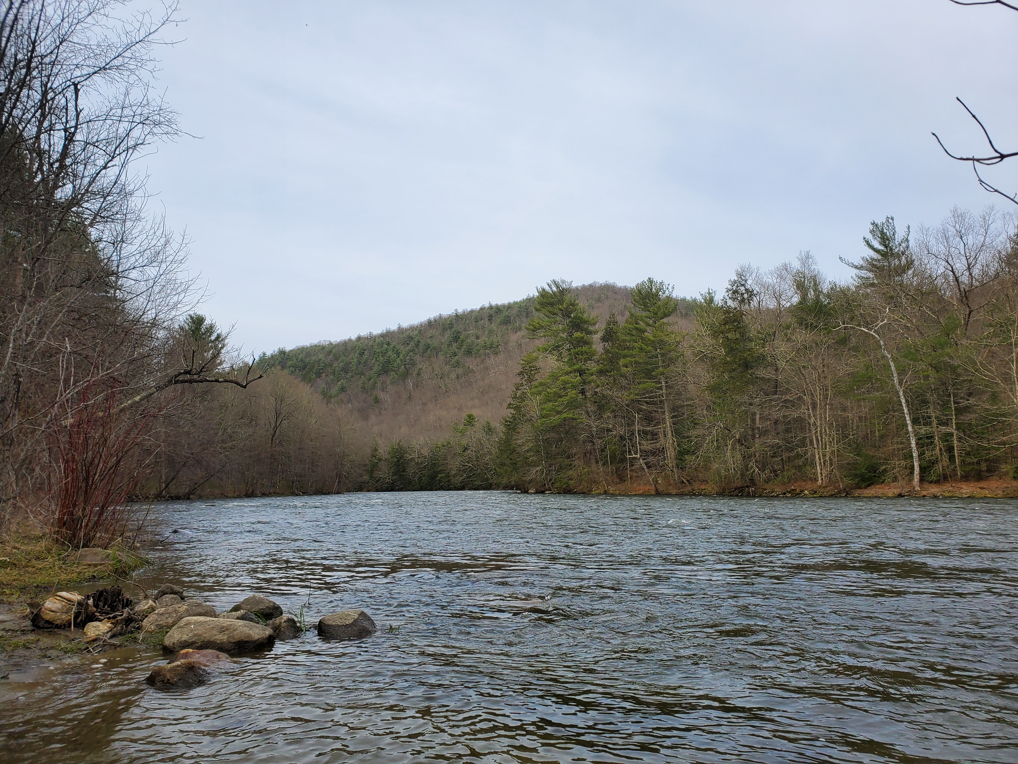 The Housatonic River in Cornwall, Connecticut. Taken in April 2020.